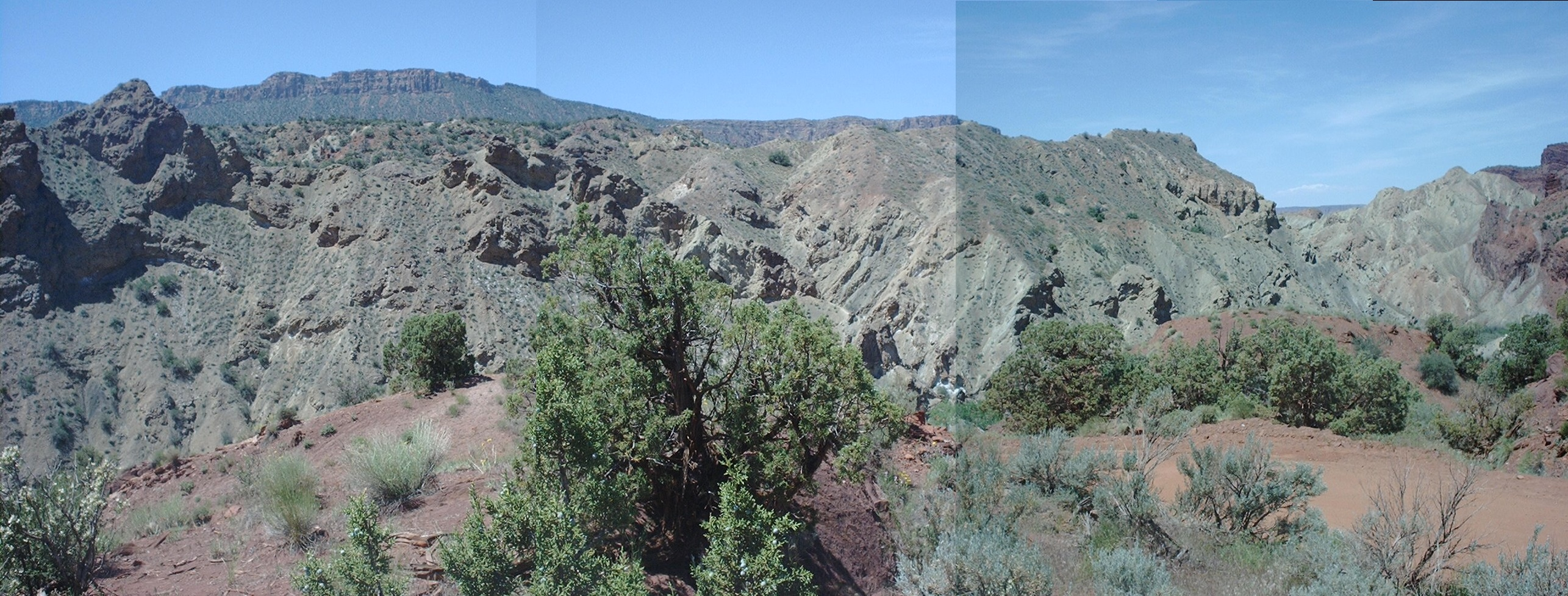 This is a stitched panorama of an emergent Cretaceous salt dome at Fisher Towers, UT, U.S. The entire lighter-gray ridge beginning at left-midground and extending to right-rear is about half of the exposed dome in this location. The entire visible length of the dome is approximately a kilometer.